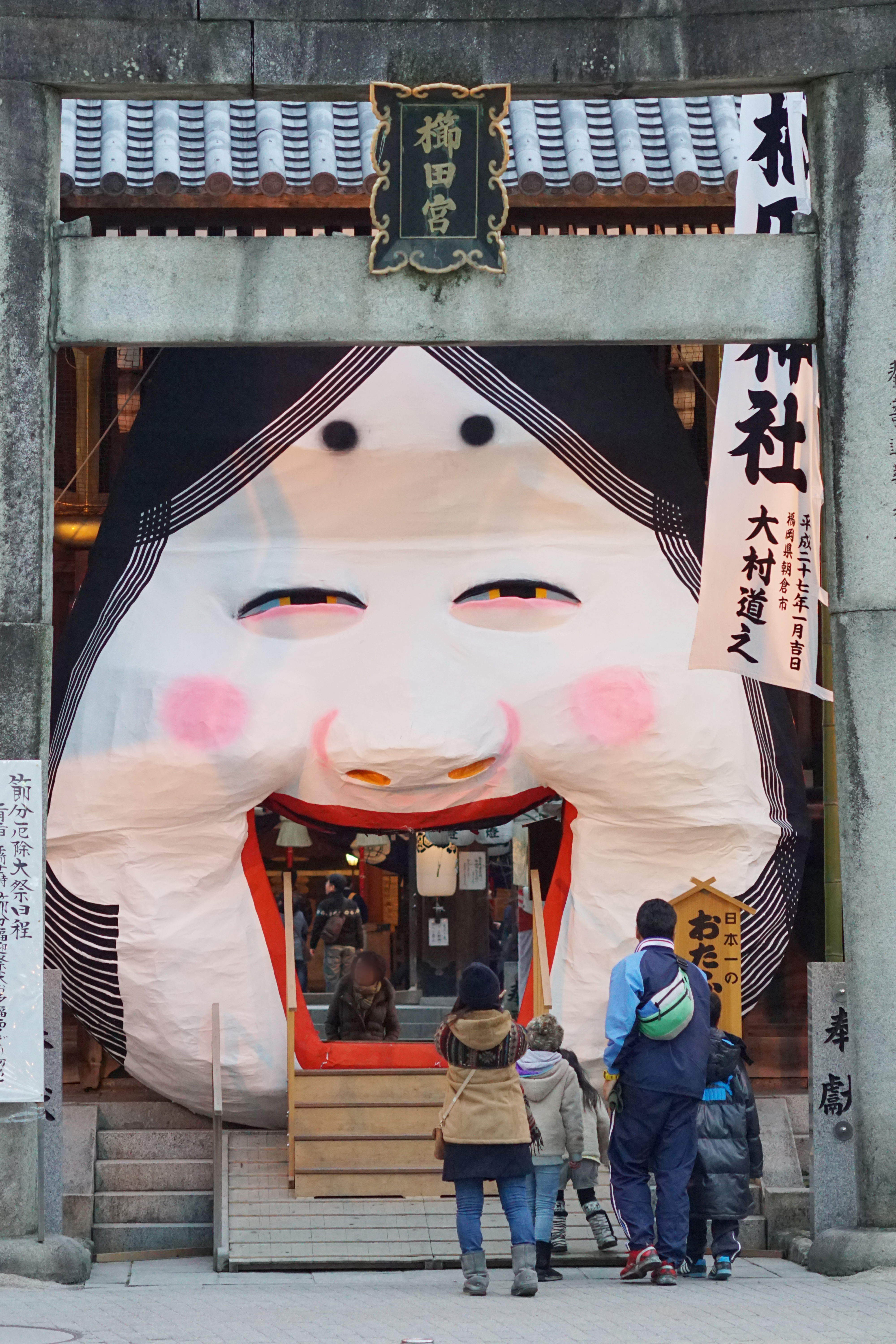 dai_otafukumen